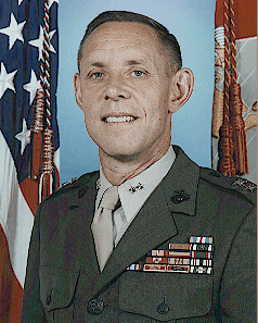 Major General Joseph D. Steward, USMC, retired; from official Marine Corps biography